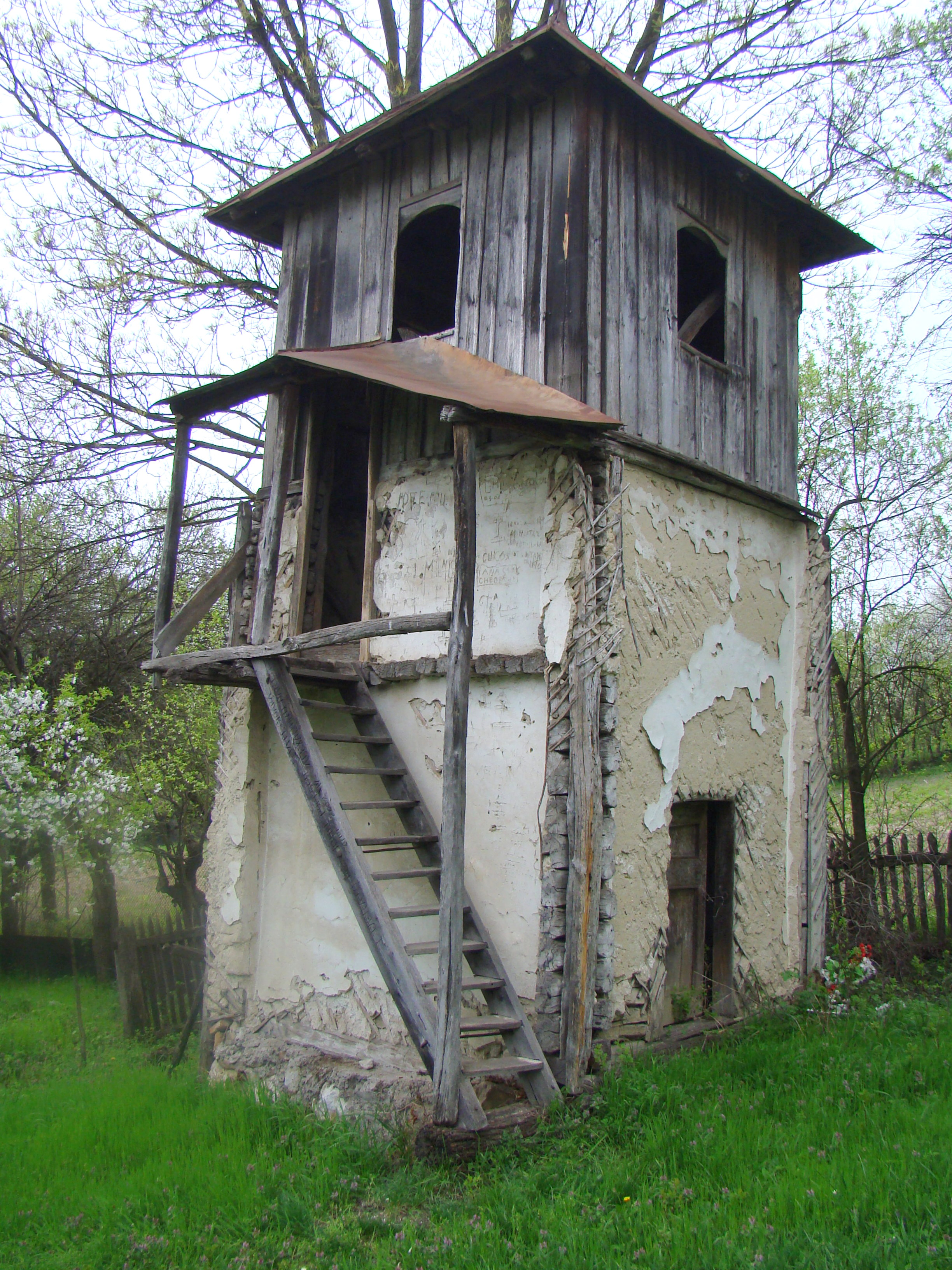 Church of the Dormition in Lupoița, Gorj county, Romania